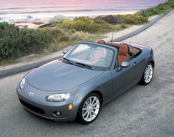 Mazda MX-5. Photo taken by the uploader.